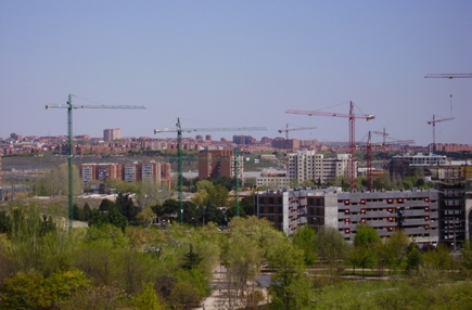 urbanistic speculation in Madrid ( Spain )